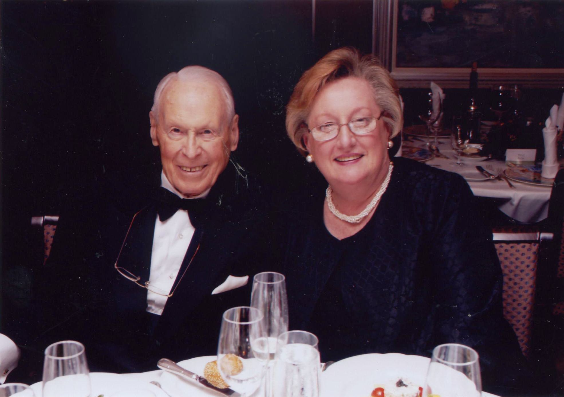 Archibald Johnston & Elizabeth Parr-Johnston on Serenity Cruise in South America